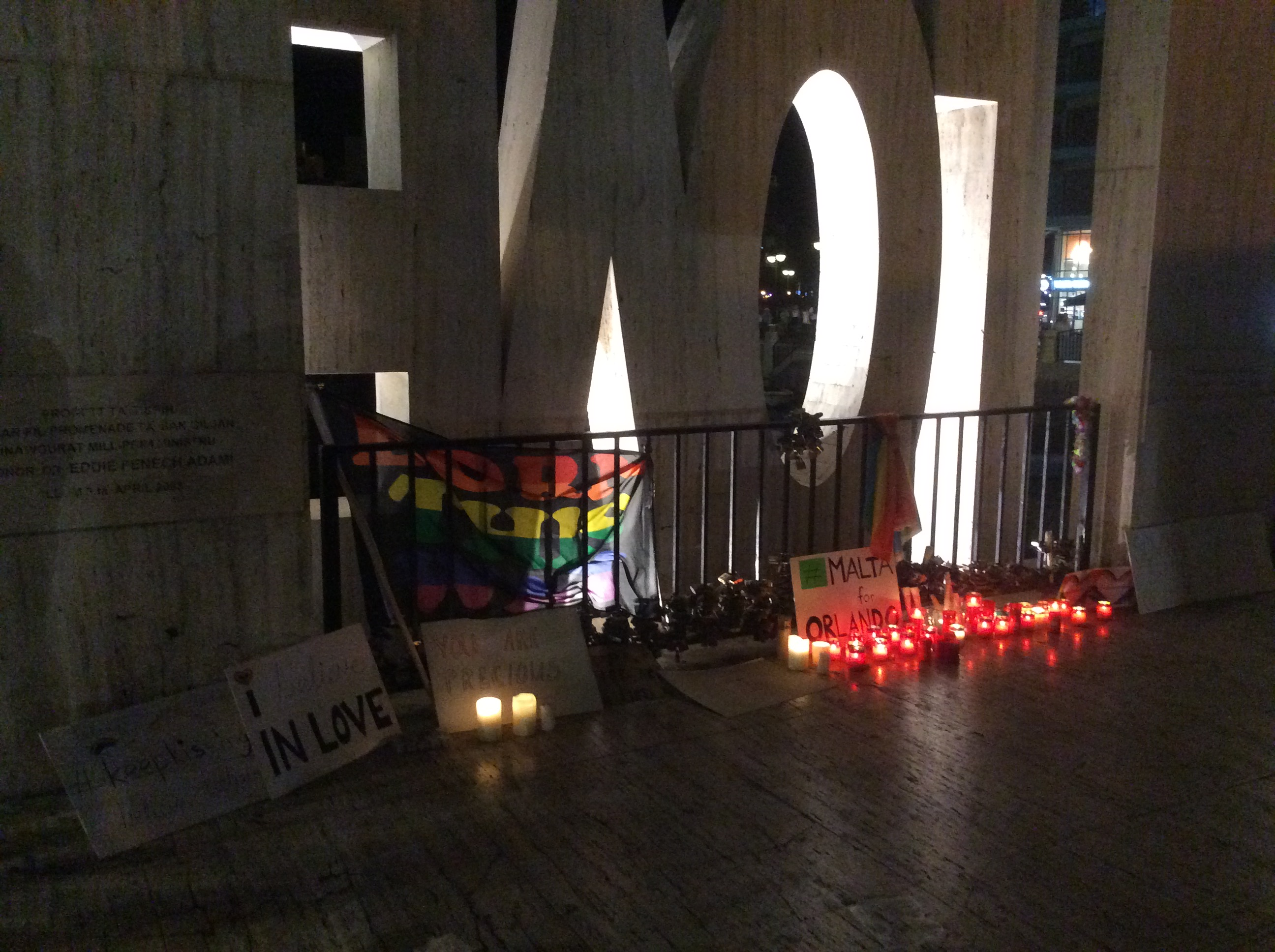 Love Monument Orlando shooting vigil Malta